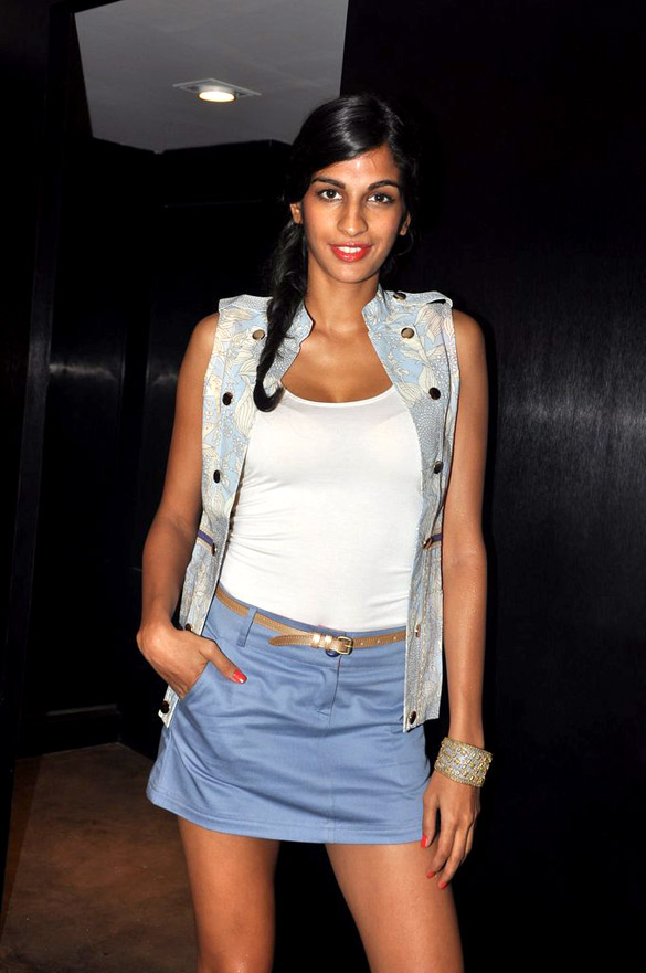 Vinegas fashion store launch